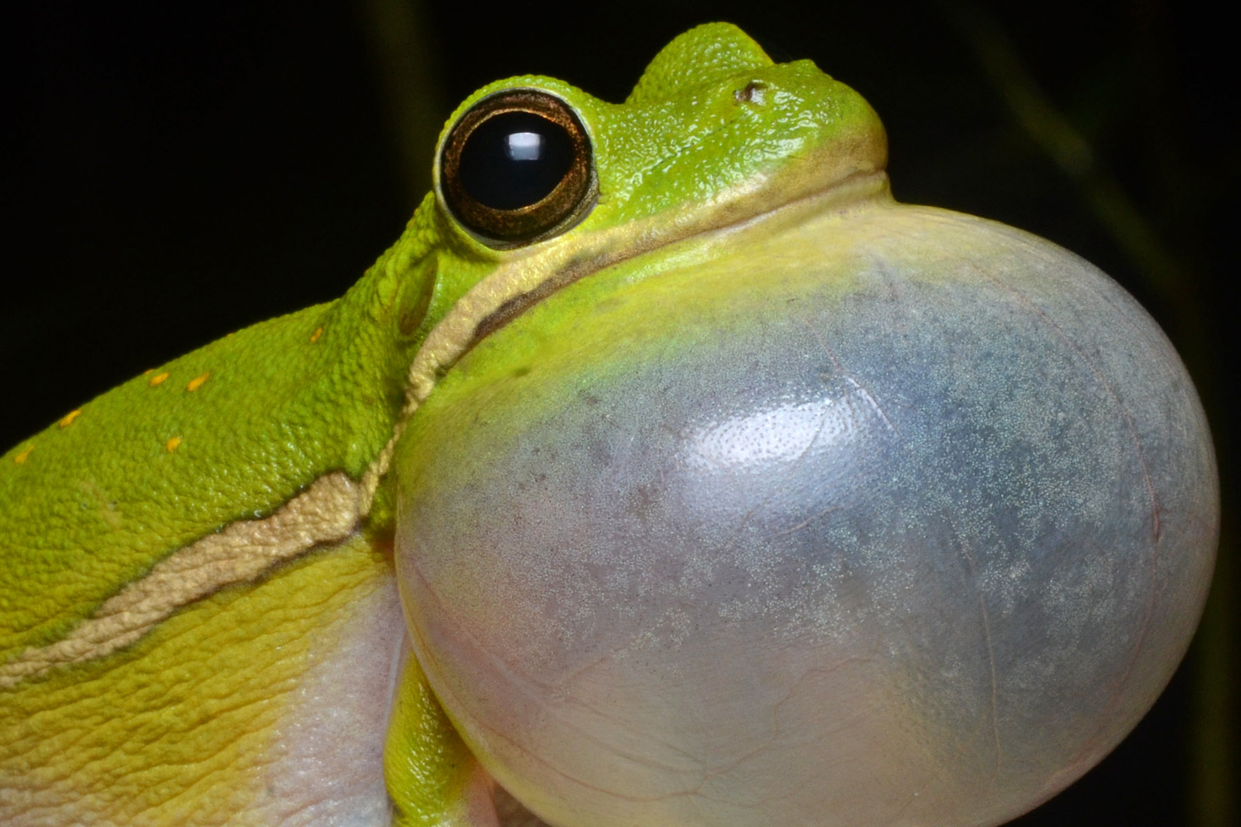 Hylidae: Hyla cinerea; calling male with distended vocal sac, Lower Suwannee National Wildlife Refuge, near Cedar Key, Florida